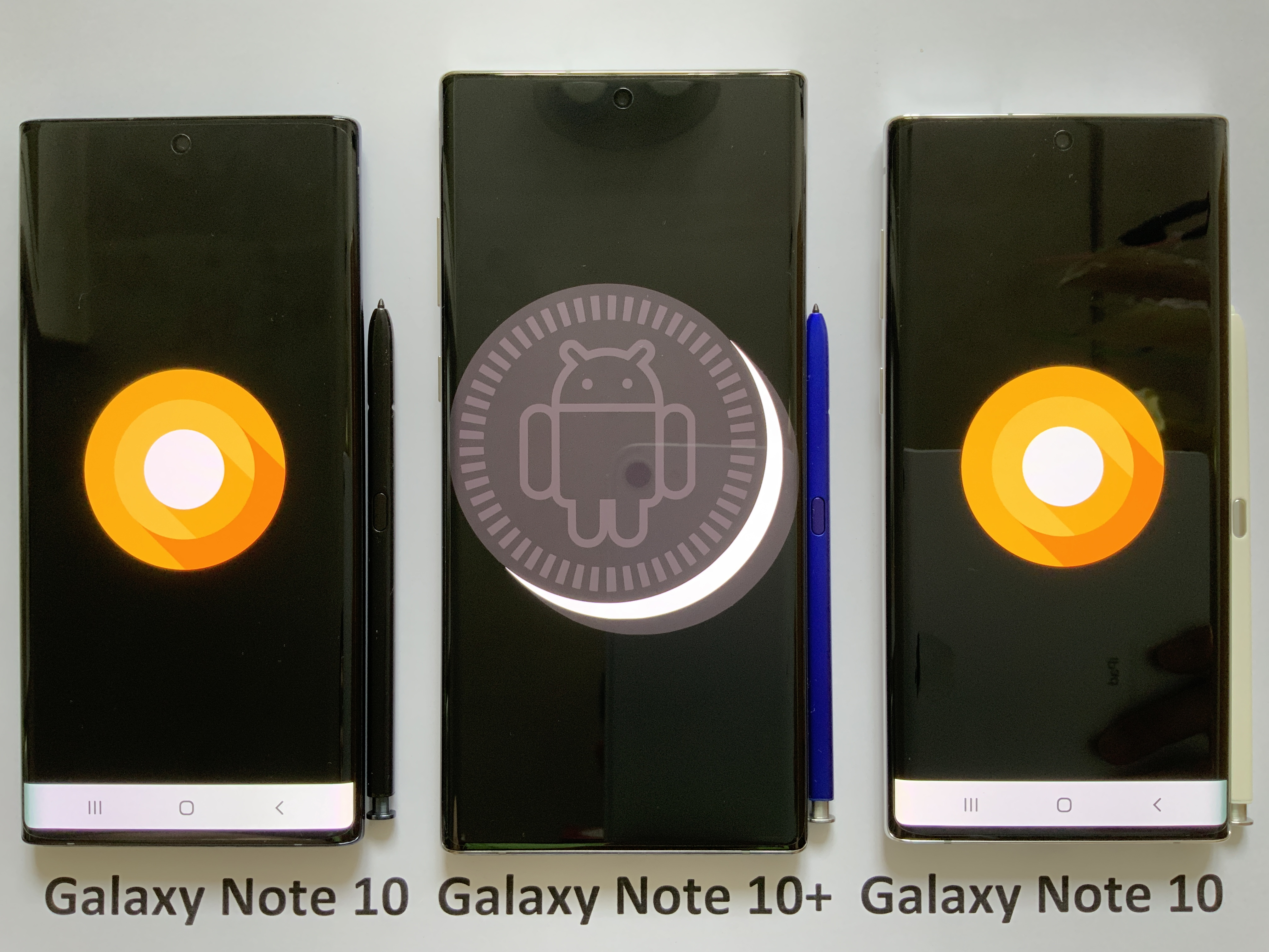 Android Oreo Easter eggs shown on Samsung Galaxy Note 10